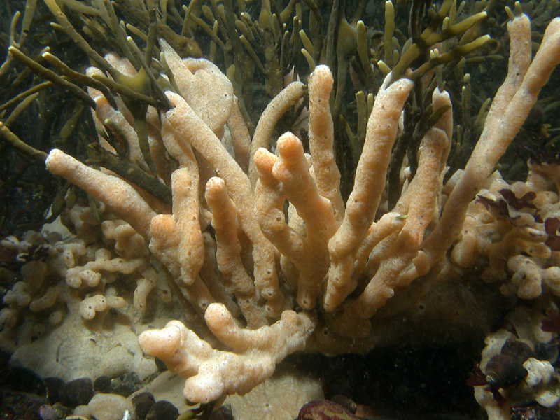 Image DB_STP_DSCN1880. Tunicate colonies of Didemnum overgrowing the fronds of dark green algae. Sandwich tide pool (41 deg 46.42 min N lat, 70 deg 29.30 min W lon). Water depth, intertidal range to 11 feet (3.4 m). Collected at low tide. December 4, 2003. Collectors: Mary Carman and Page Valentine. Photo credit: Dann Blackwood, U.S. Geological Survey.